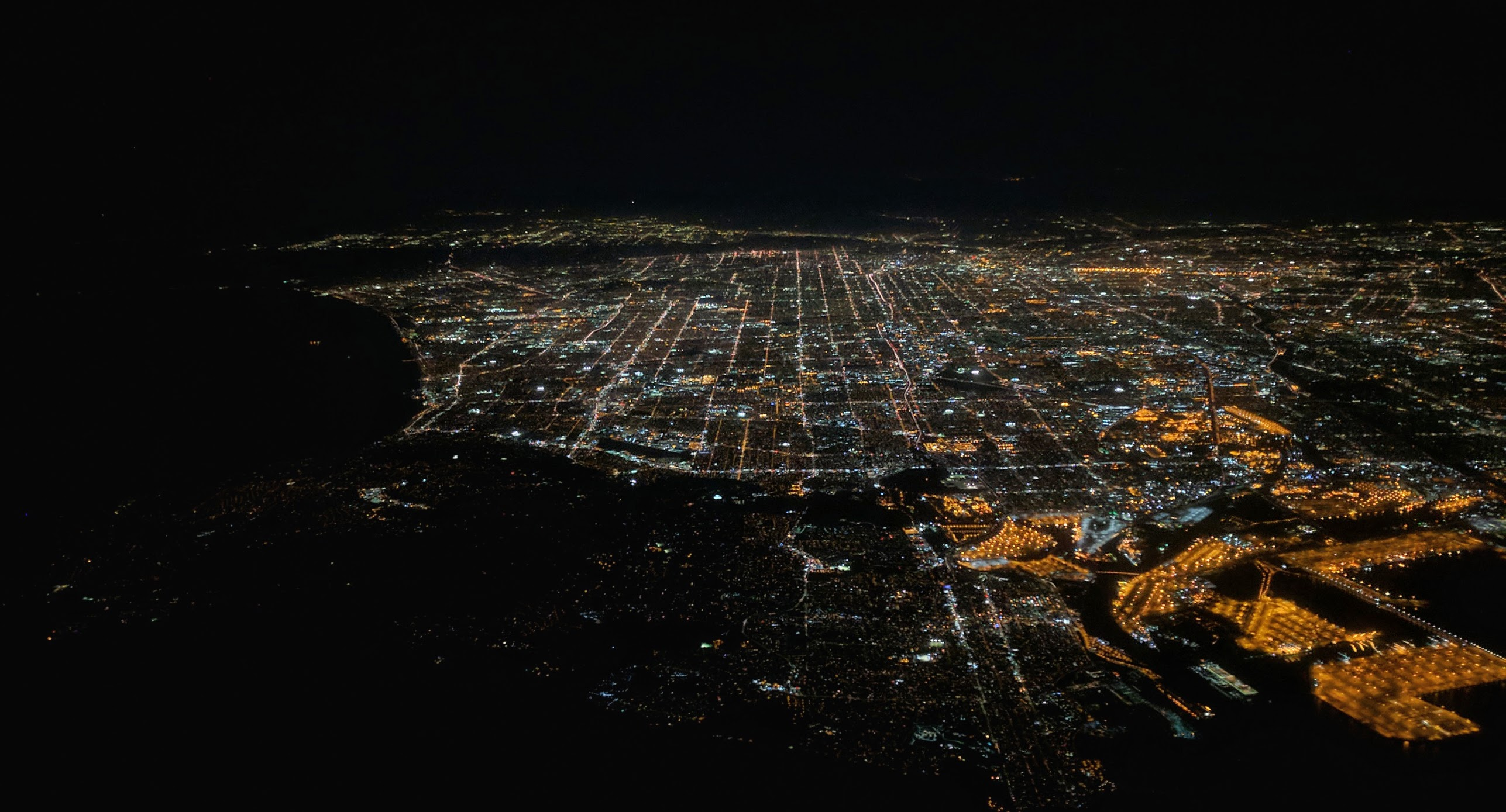 Night aerial photograph of Los Angeles, with Palos Verdes in the left foreground (dark region), San Pedro in the center foreground, and Terminal Island in the right foreground (bright region).